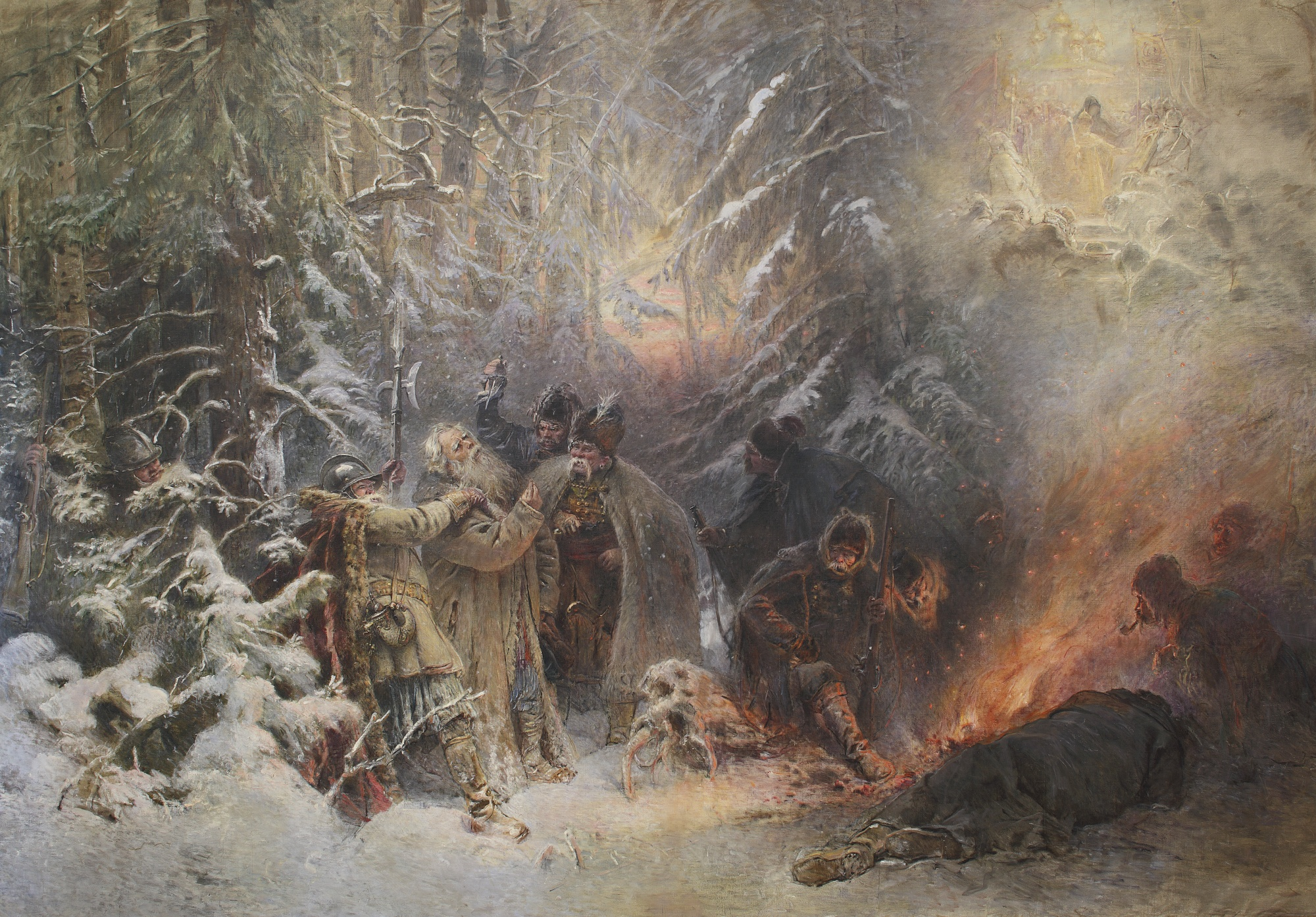 KONSTANTIN EGOROVICH MAKOVSKY, IVAN SUSANIN, 1914. SOTHEBY'S